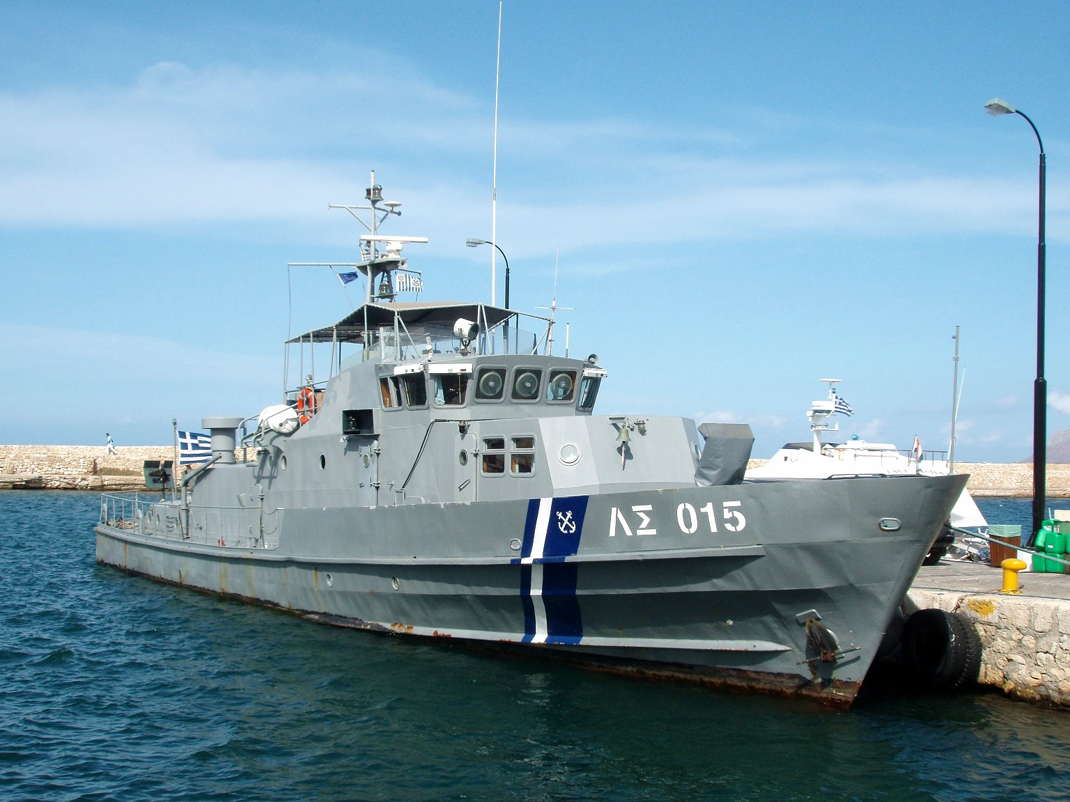 Hellenic Coast Guard PLS-015 (ΛΣ-015), open sea patrol boat at Chania Harbour, Crete.